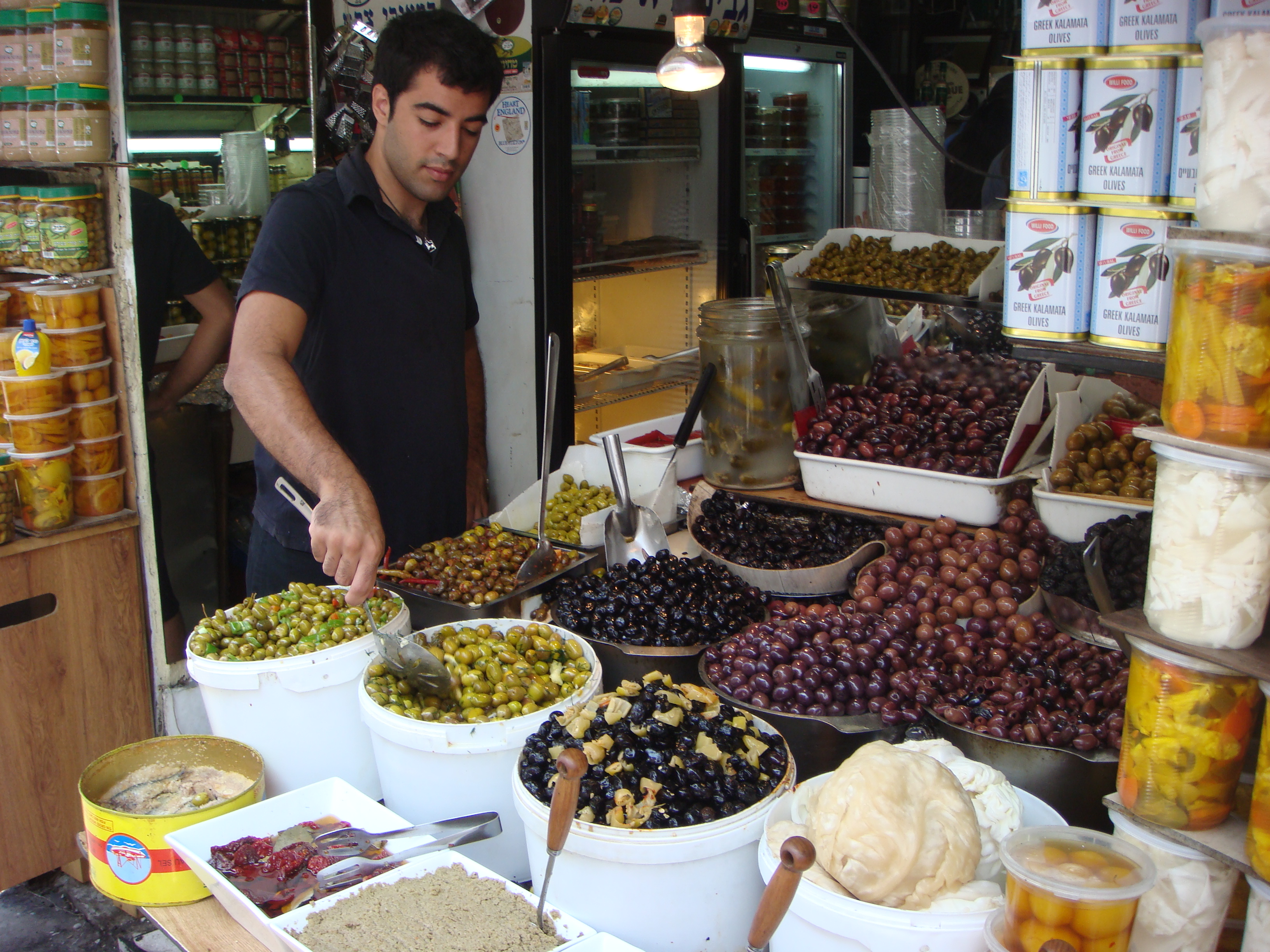 Pickle shop in Levinsky market, Tel Aviv.